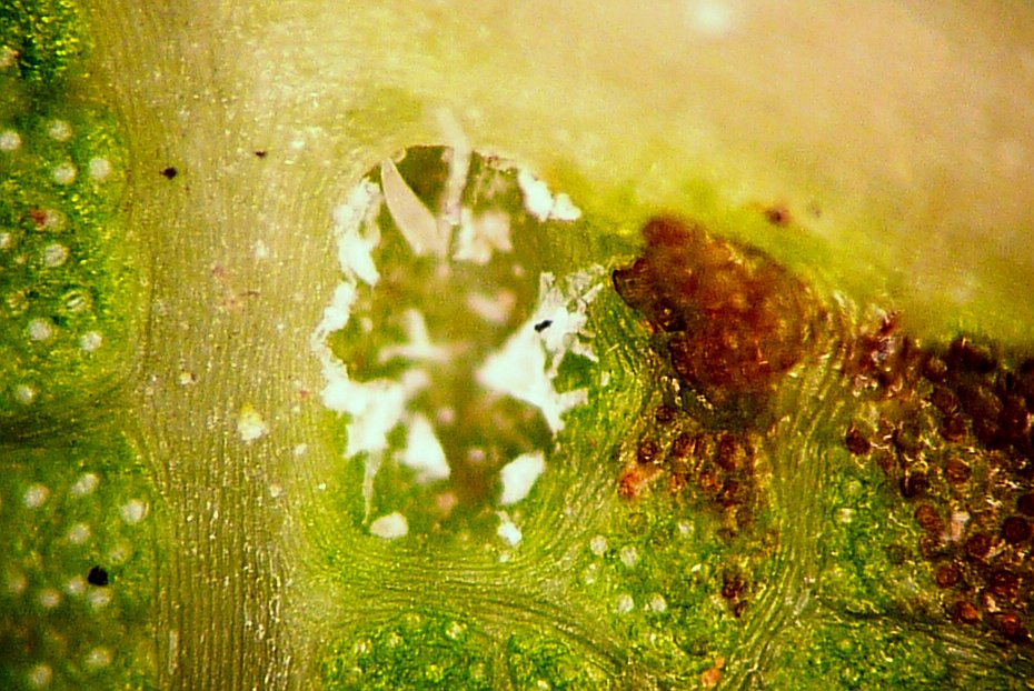 An eriophyoid mite standing up on its caudal lobes, inside the domatium of Cinnamomum camphora collected in San Francisco, CA. The white things surrounding it are exuviae.